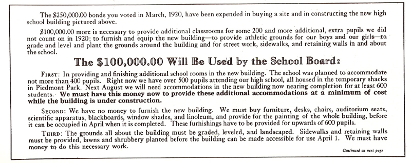 Piedmont voters passed a bond for $250,000 for the creation of a high school. After building, it was found that $100,000 more was needed to accommodate more students, furnish the school, and landscape the surrounding area.